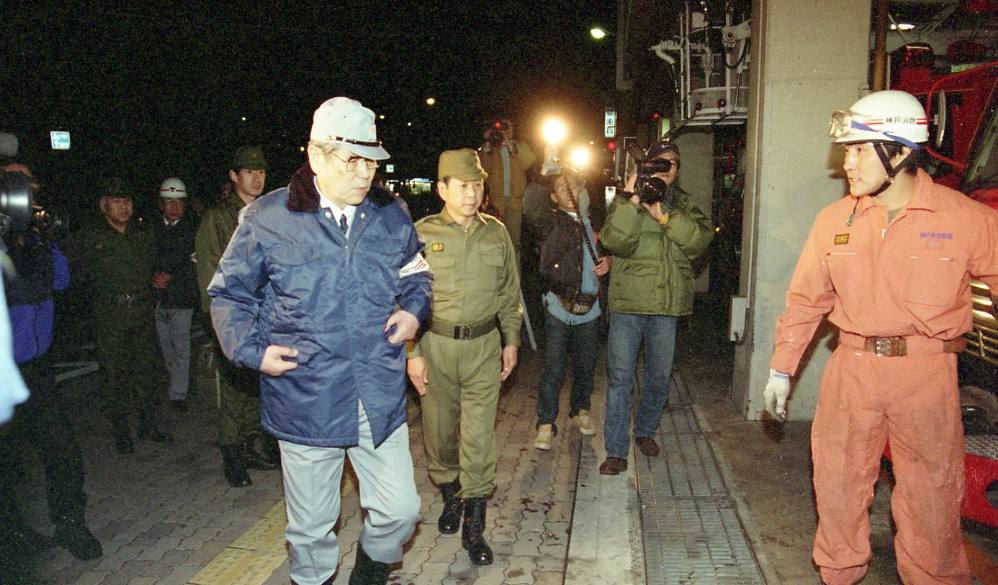 Kazutoshi Sasayama, Mayor of Kōbe City, inspected the Nada Fire Station in Kōbe City, Hyōgo Prefecture on January 17, 1996.